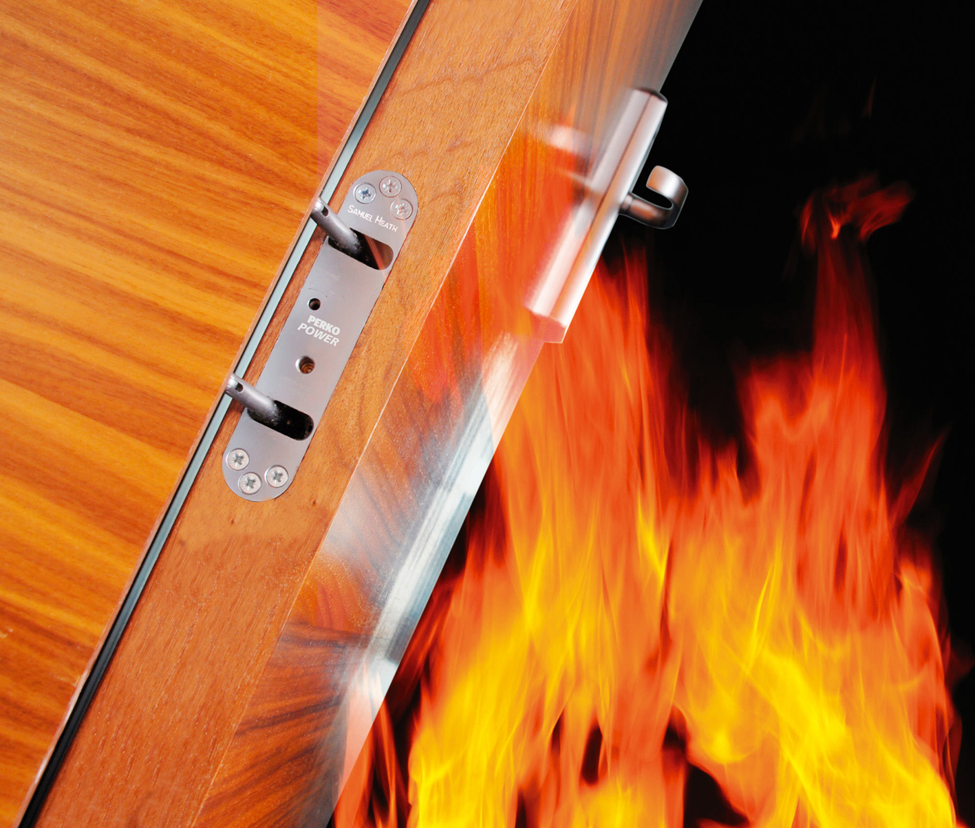 Controlled concealed door closer used in fire door installation